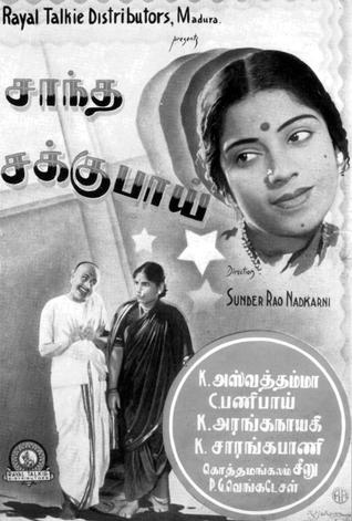 A poster of 1939 Tamil film Shantha Sakkubai